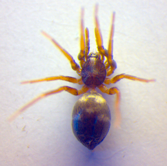 Phrurolithus festivus, adult female from Brandenburg, Germany